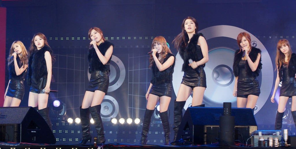 After School at a concert in 2011. From left to right: Nana, E-Young, Lizzy, Raina, Kahi, Jungah, Juyeon.